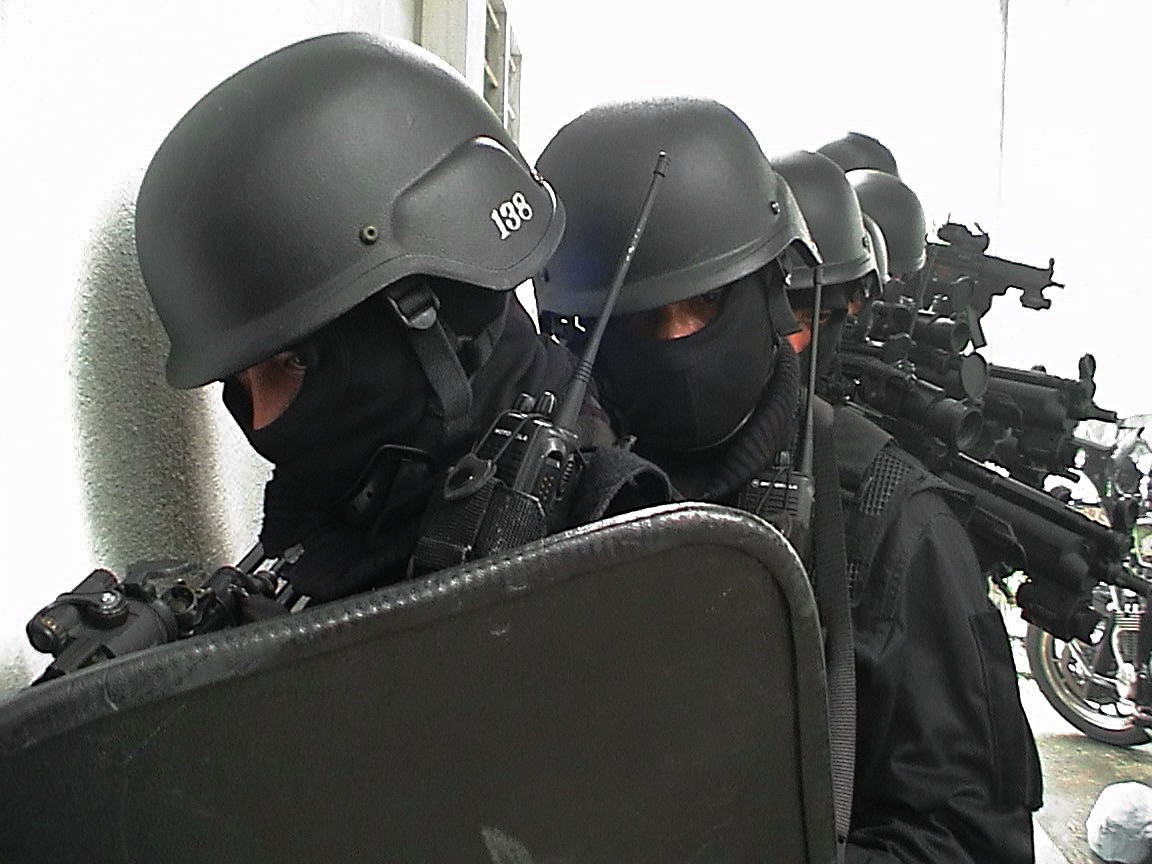 The PGK A operatives moving crosshairs during the Close Quarters Combat drill at the killing house before raid. The first operative is equipped with Tactical Shield. Taken by me at PGK A Special Operations Killing House in Bukit Aman, Kuala Lumpur.